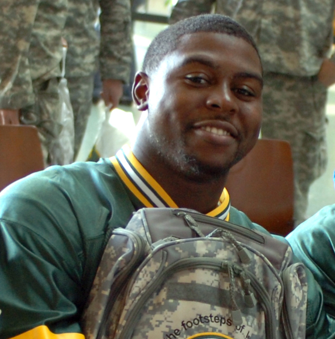 Green Bay Packers defensive end, Jarius Wynn, participating in the Pro vs. GI Joe event at the Packers’ Lambeau Field Atrium in support of deployed 32nd Brigade Combat Team Soldiers Friday, October 16, 2009.